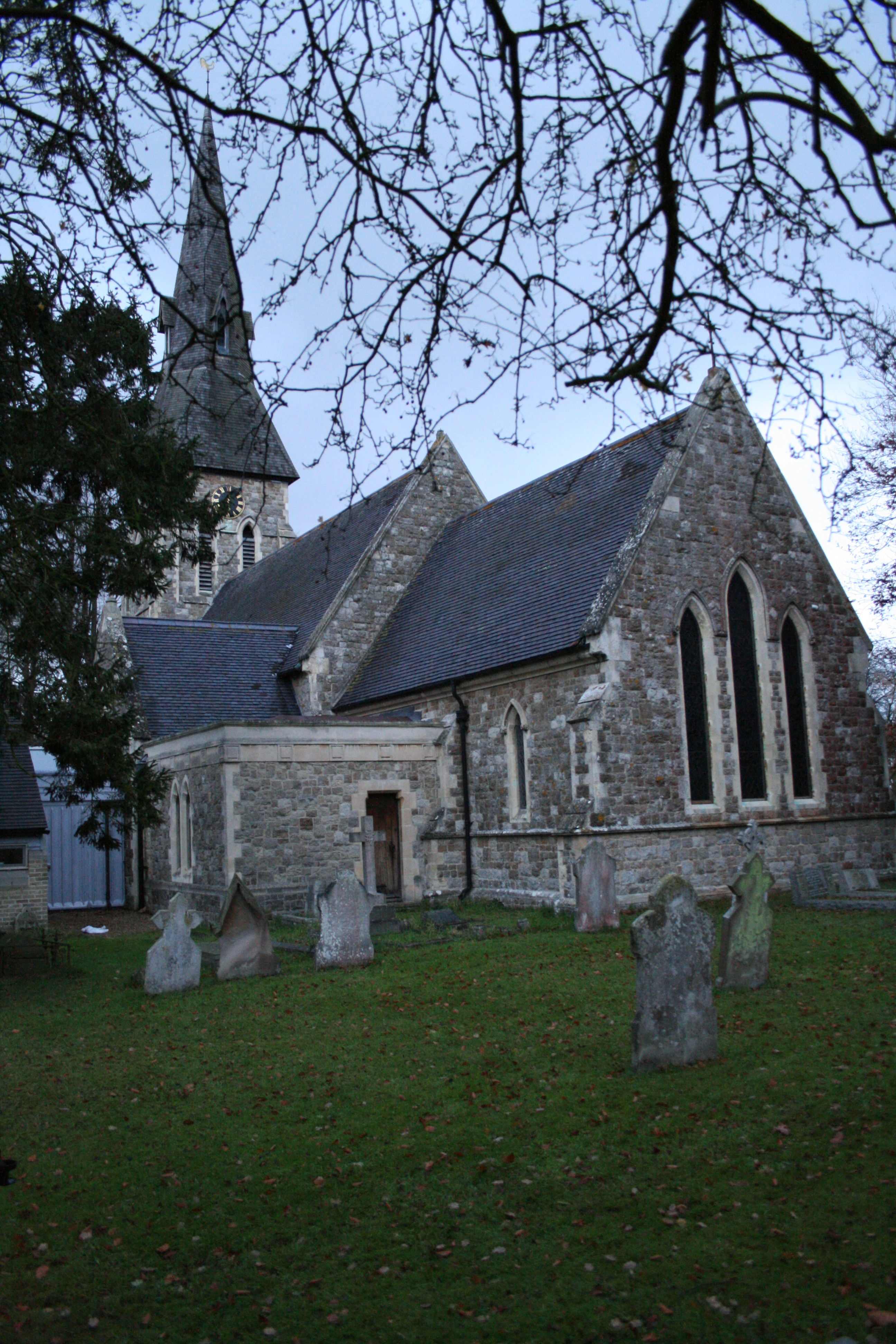 St Bartholomew's parish church, Wickham Bishops, Essex, seen from the southeast